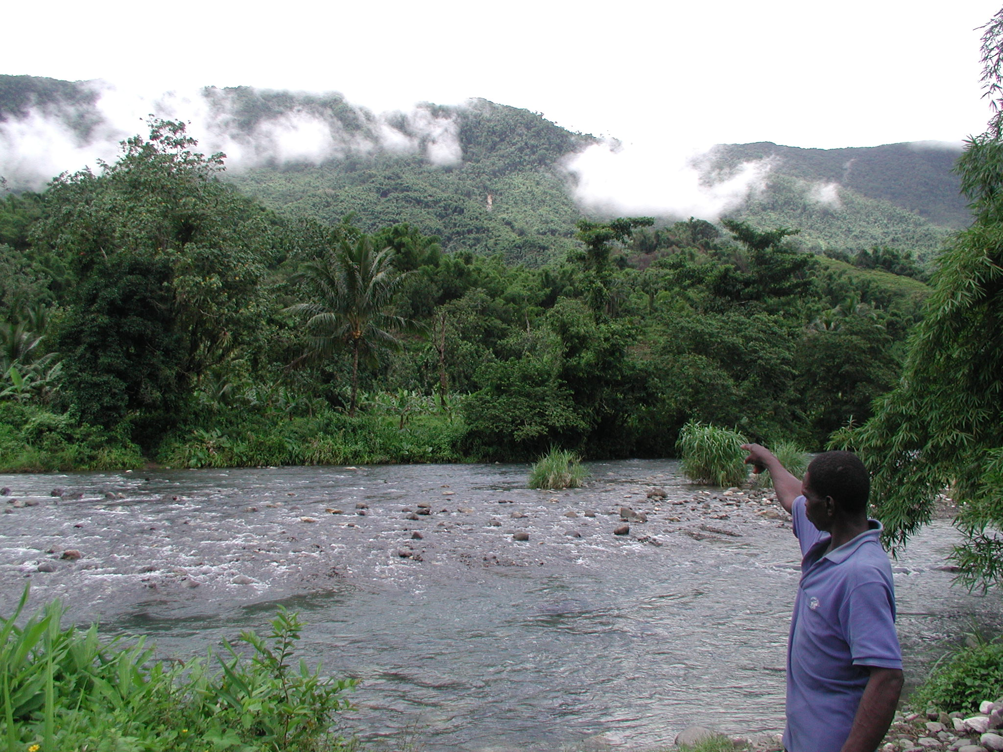 One of the Bowden Pen farmers I enjoyed the opportunity to meet, Errol Francis. In this picture, Errol points to his banana fields across the Rio Grande River.